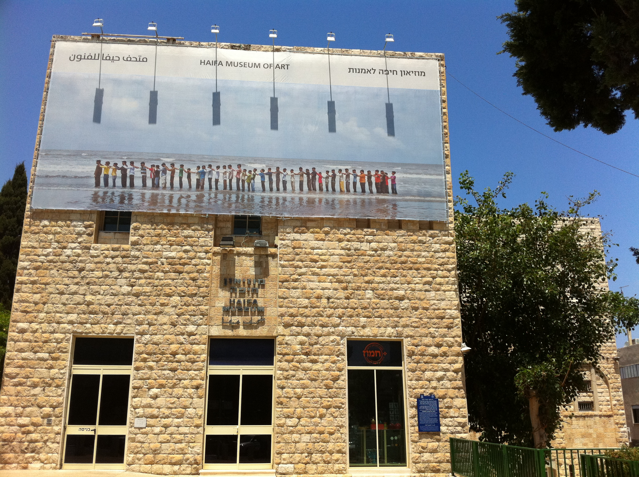 Haifa Museum of Art , Art of Israel